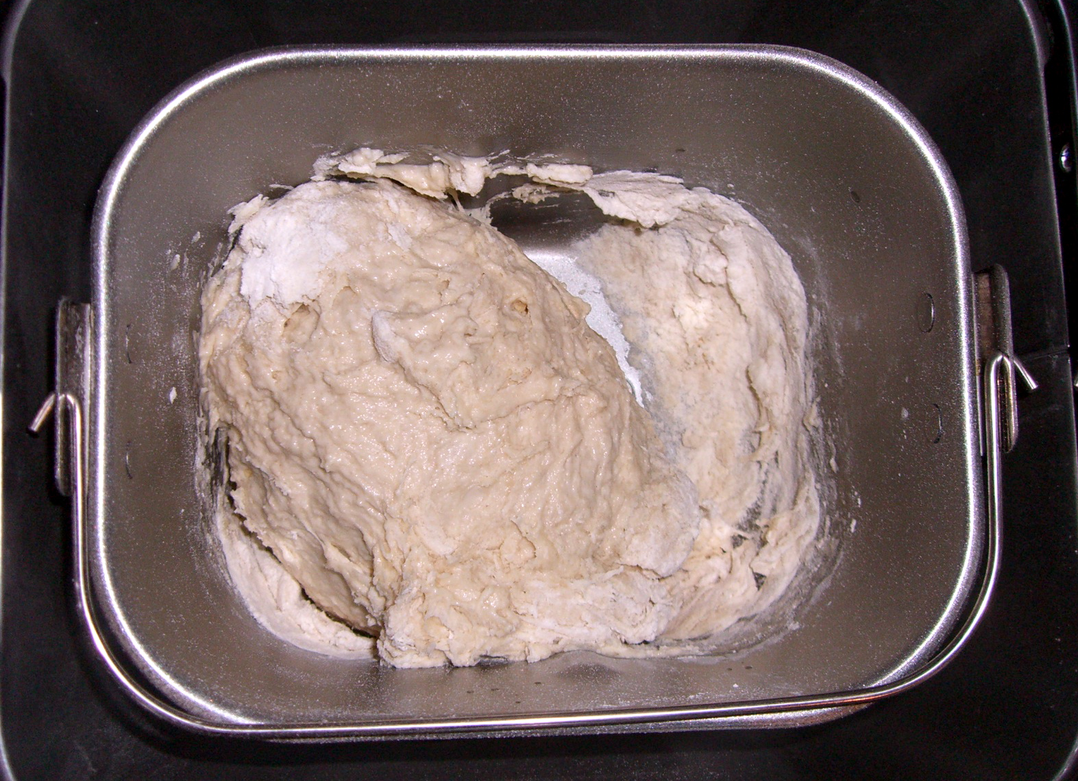 Dough in bread machine.